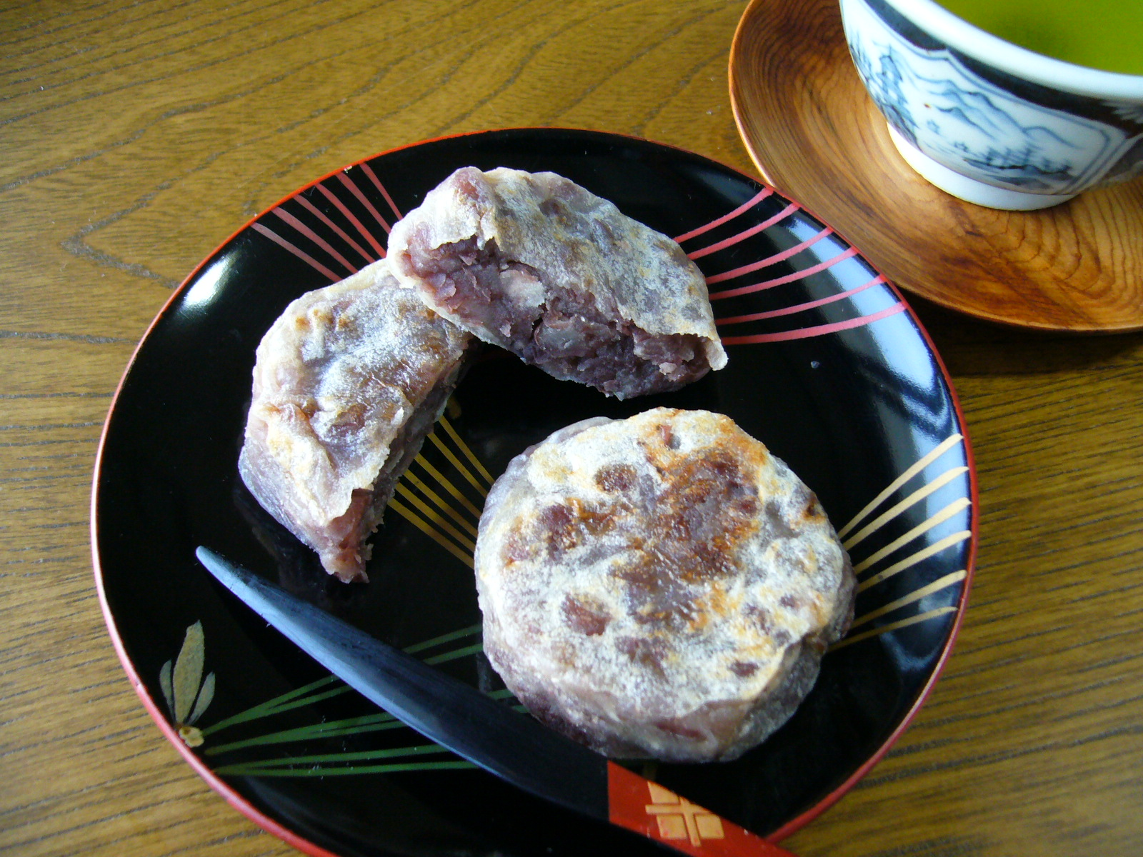 Kintsuba, frid wheat flour cake stuffed with sweetened bean jam,katori-city,japan